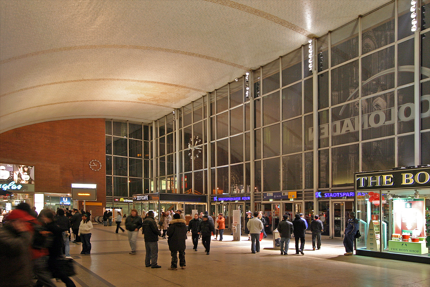 Main train station, Cologne, Germany.